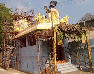 Tanjorevalampurivinayakartemple தஞ்சாவூர் வலம்புரி விநாயகர் கோயில்